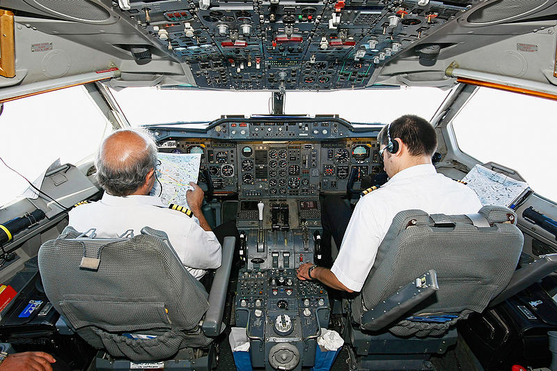 Iran Air's Airbus A300B4-203 cockpit. EP-IBH